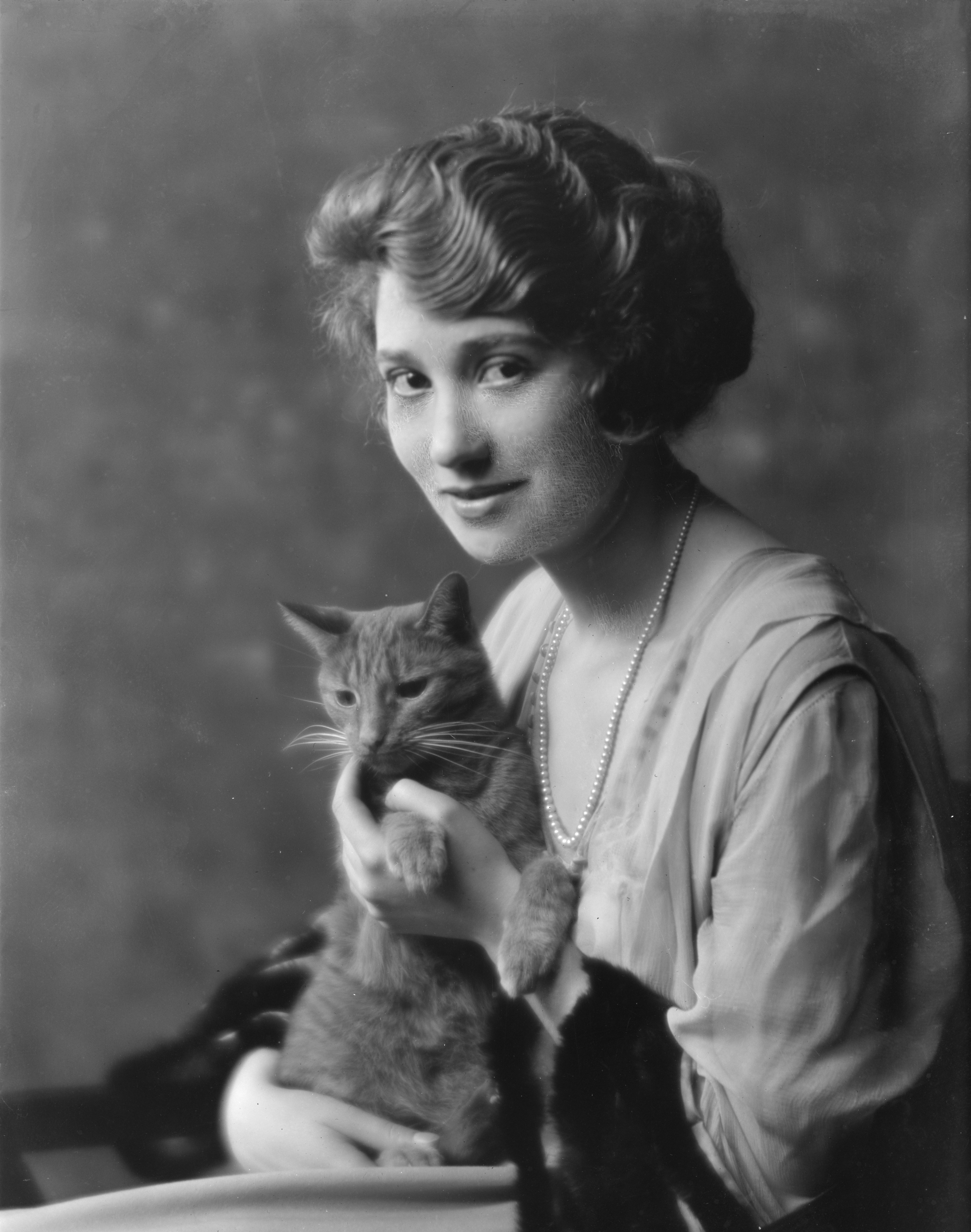 Title Bainter, Fay, Miss, with Buzzer the cat, portrait photograph Contributor Names Genthe, Arnold, 1869-1942, photographer Created / Published 1916. Subject Headings - Genthe, Arnold,--1869-1942--Animals & pets. - Bainter, Fay,--1892-1968. Format Headings Glass negatives. Portrait photographs. Notes - Purchase; Genthe Estate; 1942 or 1943. - 1933; NY 10r; RR card Medium 1 negative : glass ; 5 x 7 in. Call Number/Physical Location LC-G432- 1583-A [P&P]